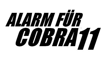 Logo of TV series Alarm für Cobra 11 - Die Autobahnpolizei. Created with graphic editor, based only on similar symbols.